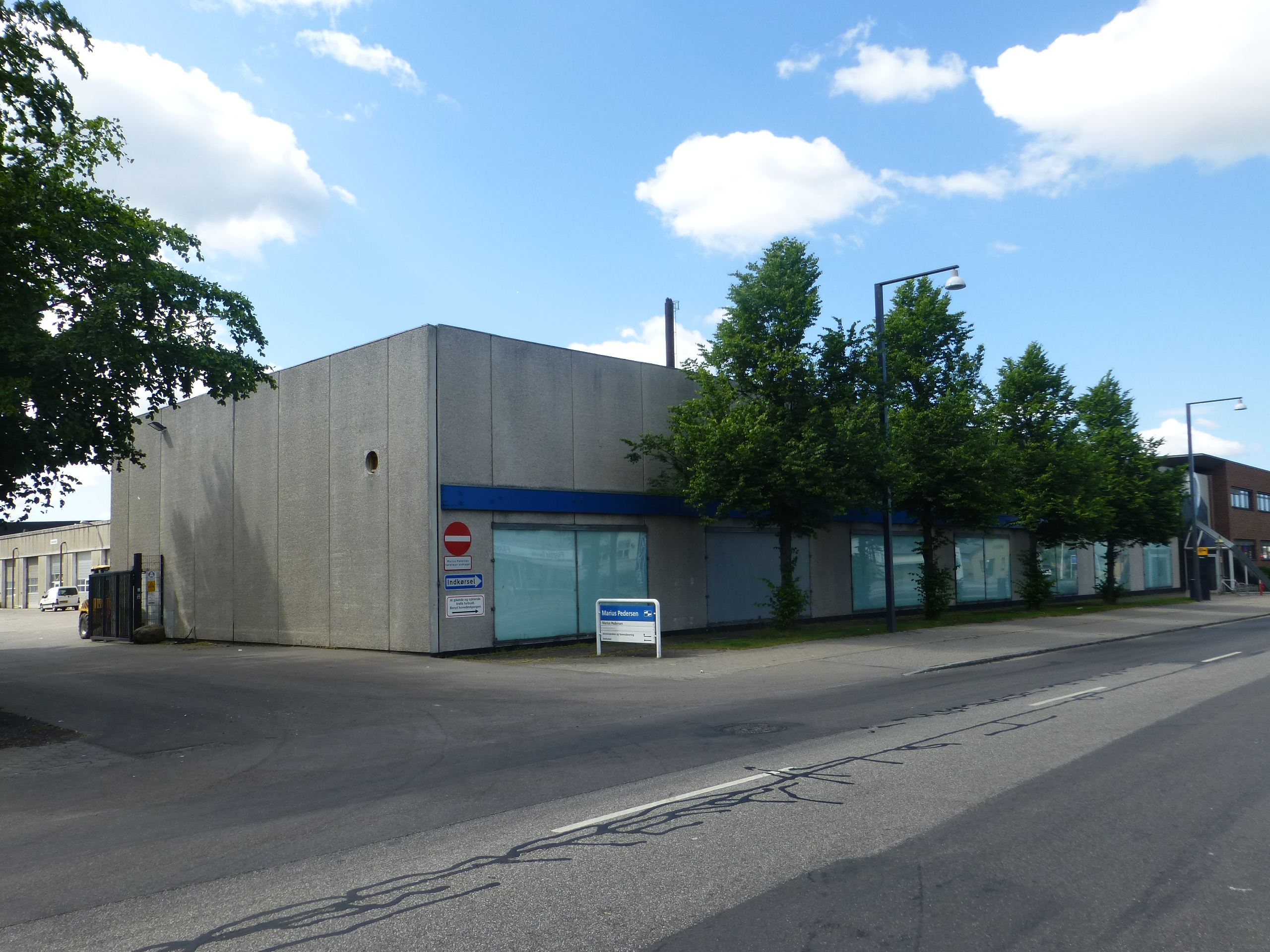 HT Museum, better known as HT-museet, was a museum for trams and buses in Copenhagen in Denmark which existed from 1984 to 2003. The collection now belongs to Sporvejsmuseet Skjoldenæsholm while the building belongs to the company Marius Pedersen.